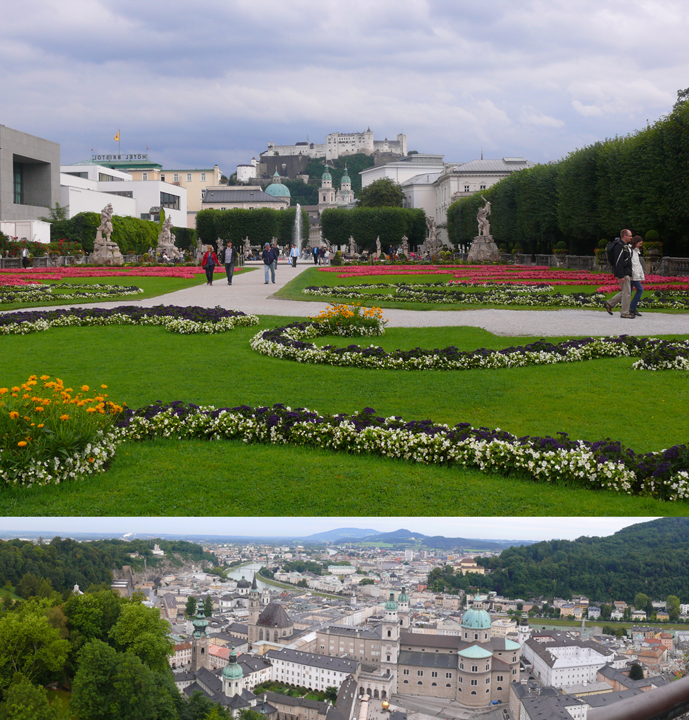 Salzburg, Austria